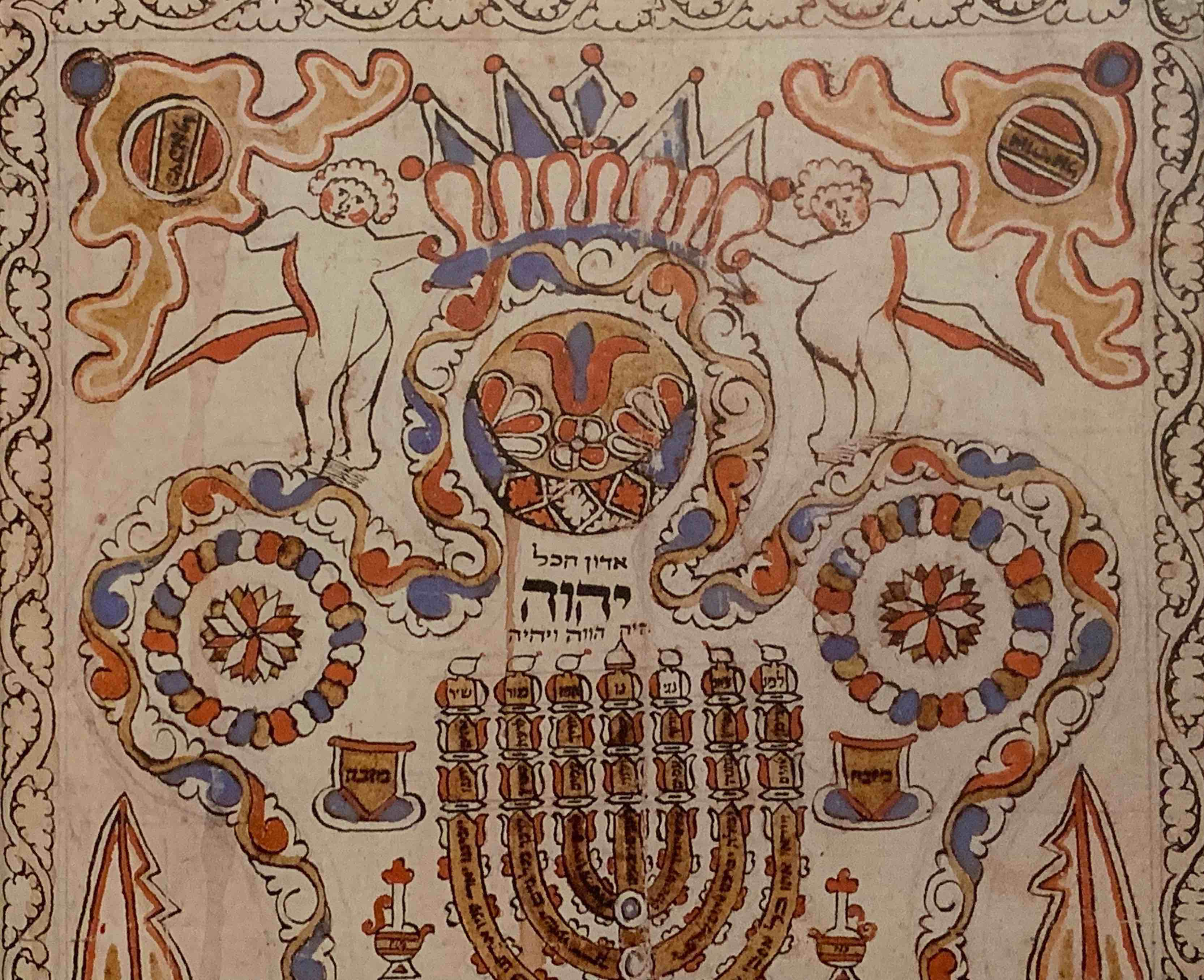 "Keter" detail of a Kabbalistic Printing (Mizrach) by Samuel Habib, 1828